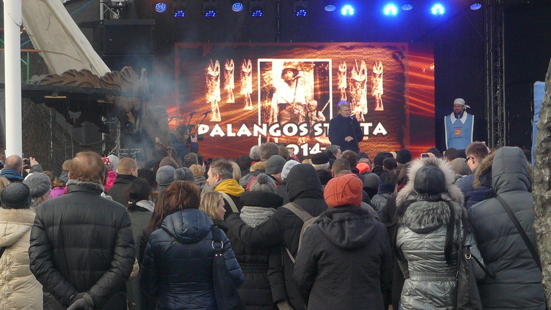 Palanga 2014